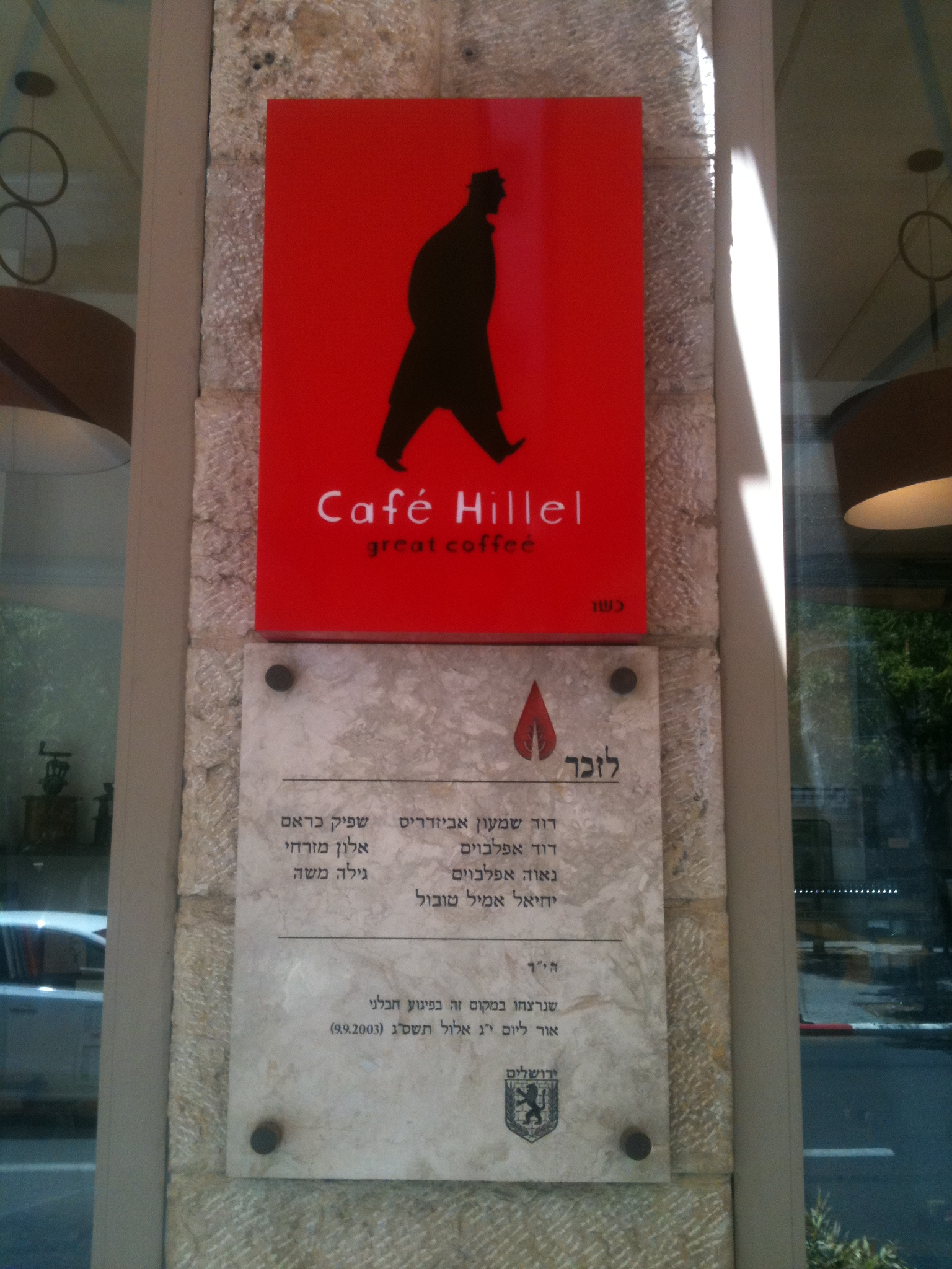 Israël, Jerusalem, 54 Emek Refa'im Street, Cafe Hilel - The plaque outside the cafe Hillel on Emek Refaim commemorating the bombing there on 9.9.2003